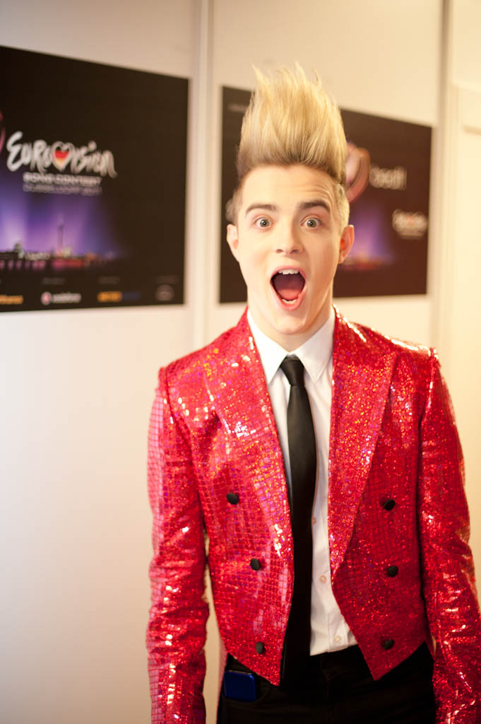 One of the singers of the Irish duo Jedward, representing their country in the Eurovision Song Contest 2011